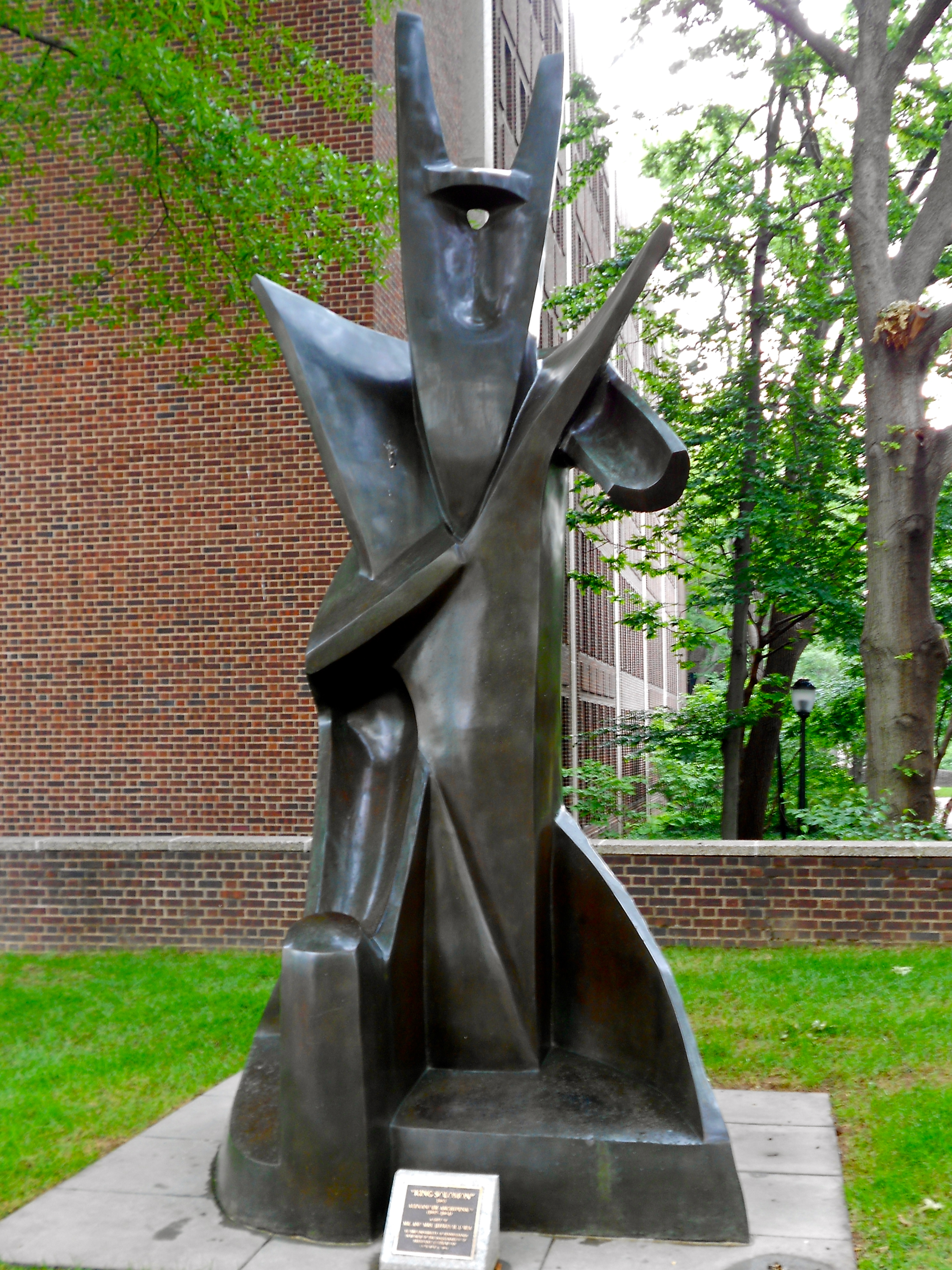 1963 sculpture "King Solomon" by Alexander Archipenko on the PennCampus in Philadelphia. Small version made in 1963, this version 14 ft tall. cast in 1968. See [1] No visible copyright mark (signed Archipenko 1/6), therefore in the public domain